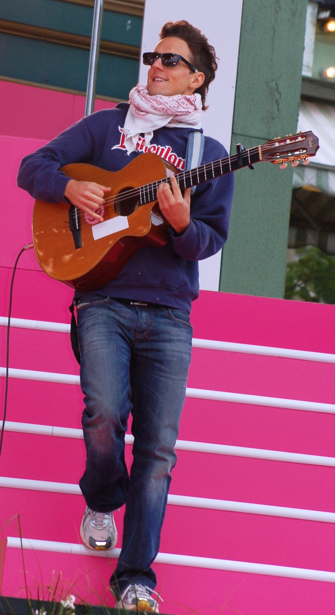 Jason Mraz, Singing in Stockholm At Gröna Lund.